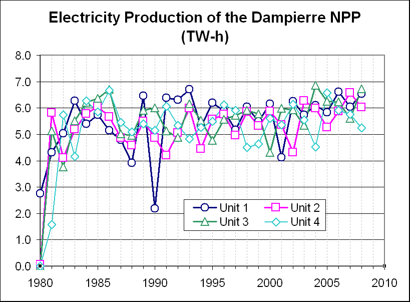 From PRIS data